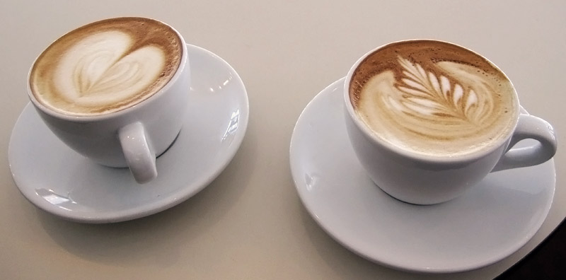 Barista Fair Trade Coffee, Götgatan 67, cappucino